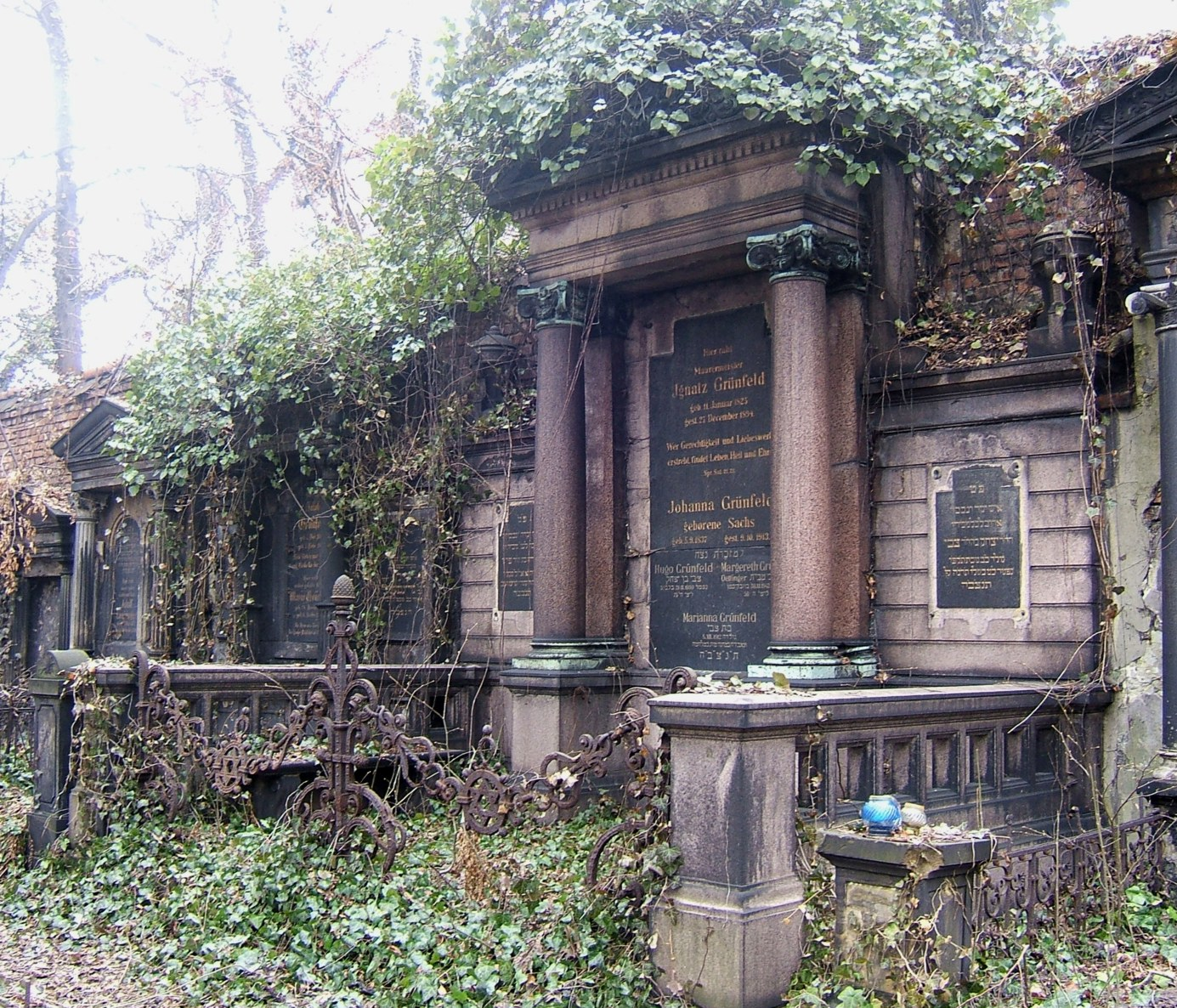 Grünfeld family grave at the Jewish Cemetery in Katowice.